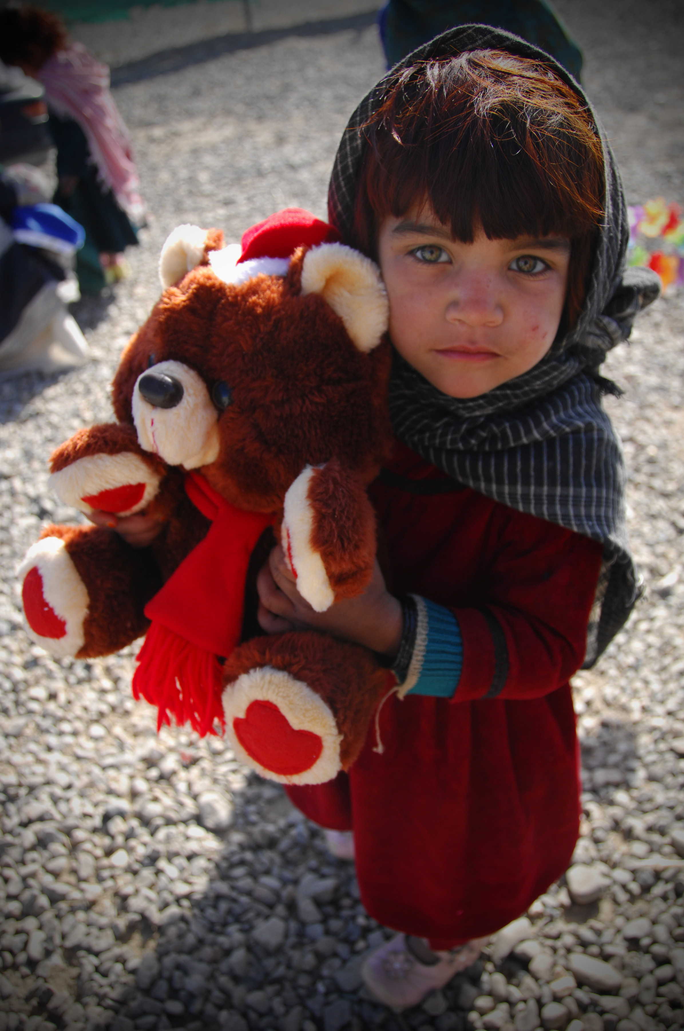 Young Afghan girl clenches her teddy bear that she received at the medicl clinic during her visit, Camp Clark, Khowst province, Afghanistan, Dec. 22, 2009. The clinic gives support to local Afghan children in the area providing vitamins and winter clothing.